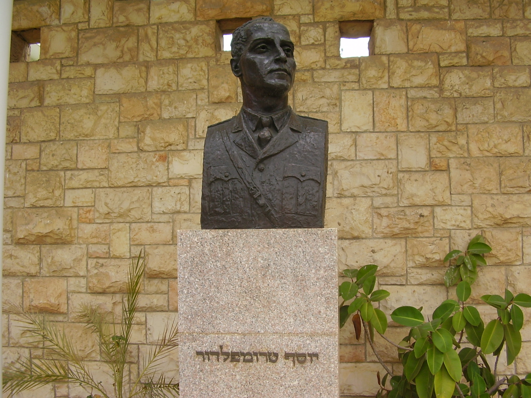 Sculpture of Joseph Trumpeldor in Avihayil